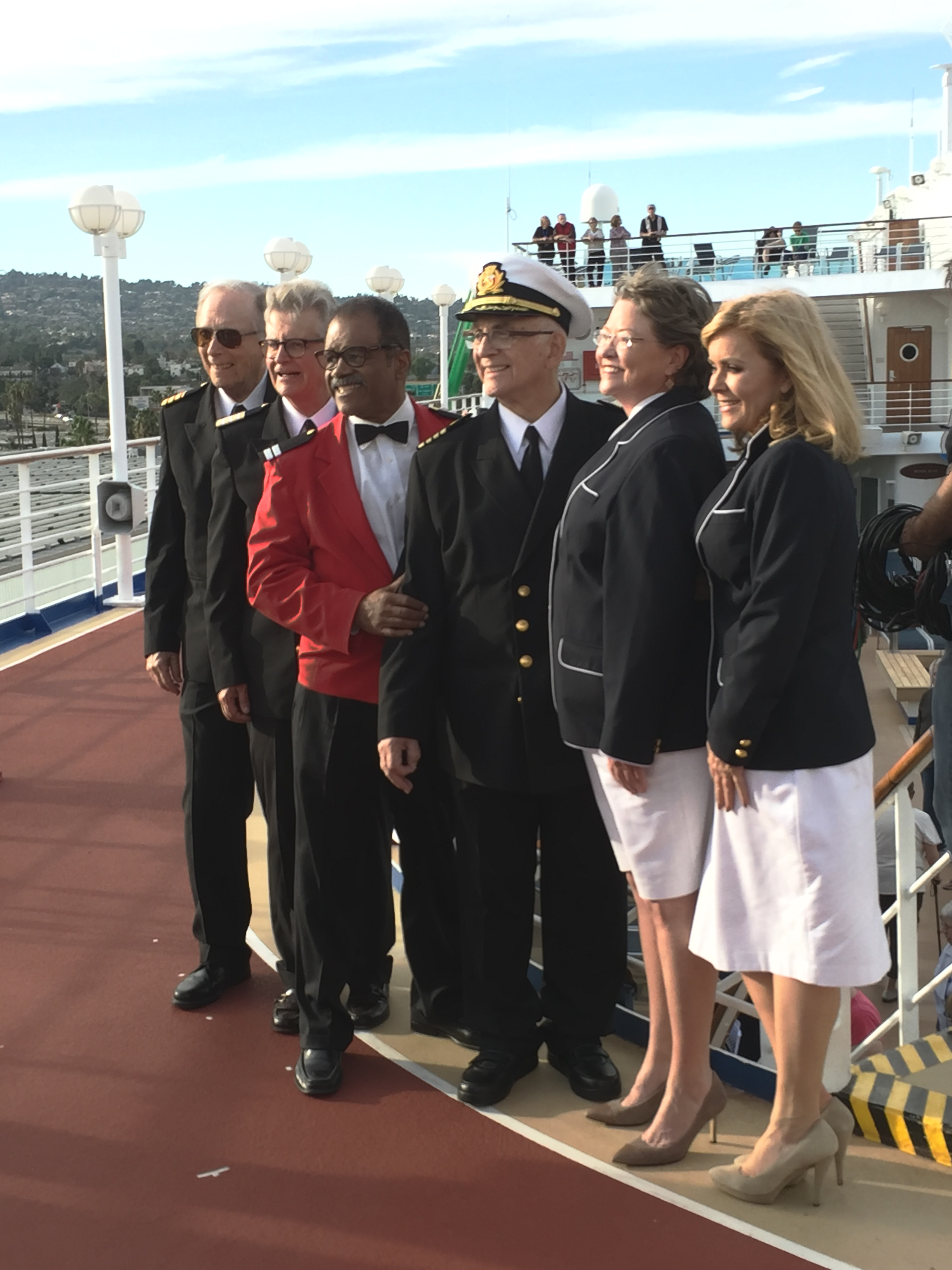 Members of the Love Boat cast on board the Pacific Princess (II)